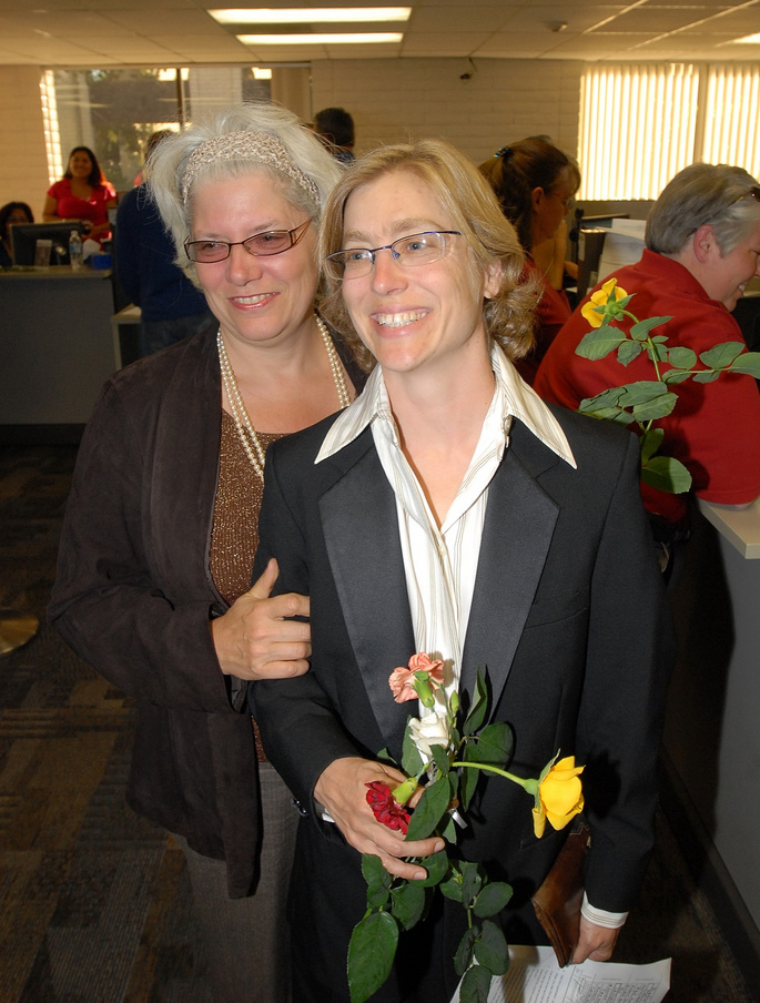 Cheryl Chase and Robin Mathias getting married